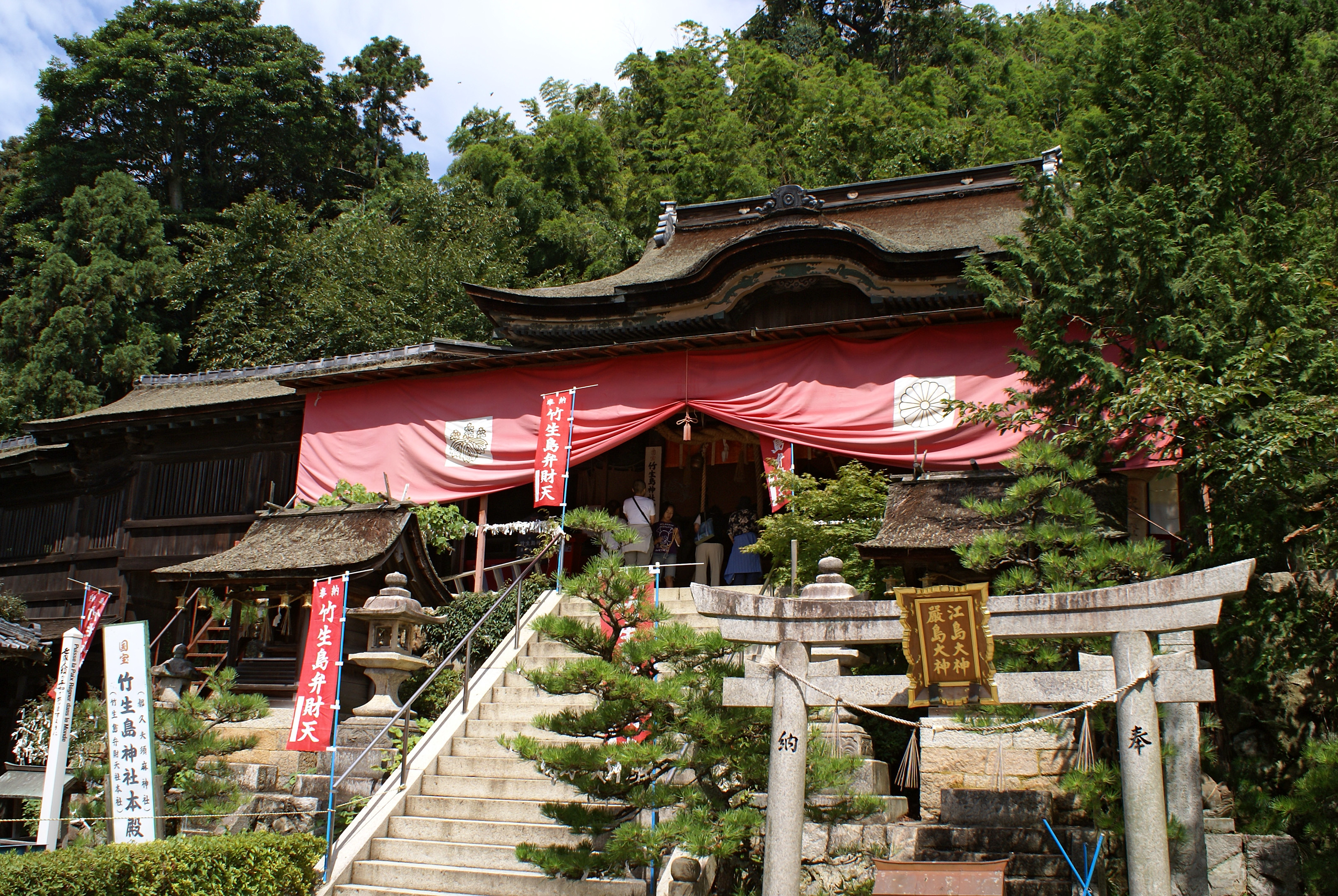 Tsukubusuma-jinja in Nagahama, Shiga prefecture, Japan